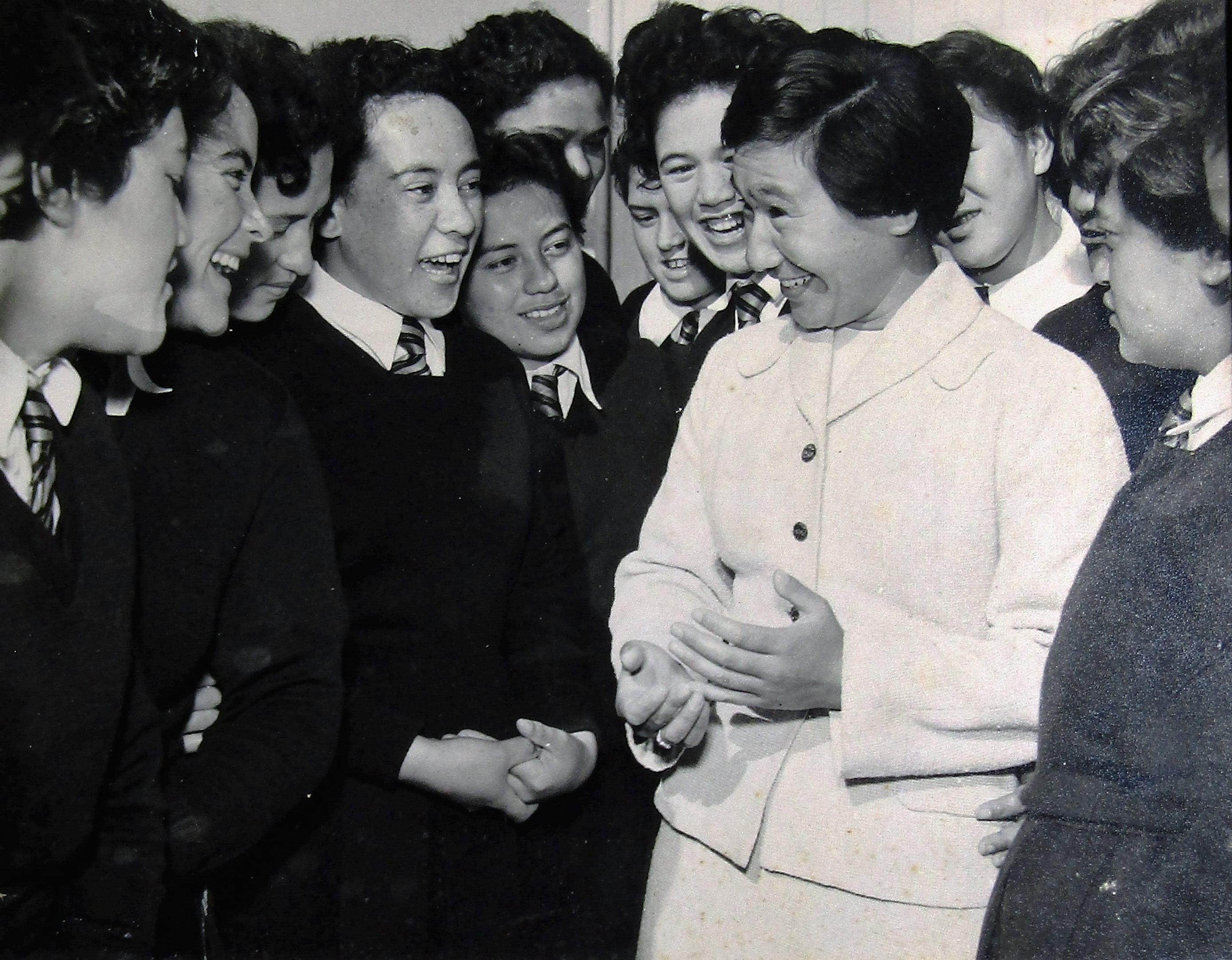 This photograph shows Ruia visiting her former school, and is inside an album of photographs from Queen Victoria School for Maori Girls ADAE 149952/3/e c1960-c1963